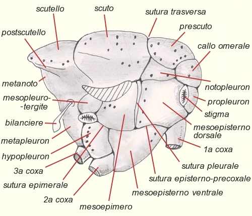 The side (lateral) of the body-segment of a Diptera (insect)